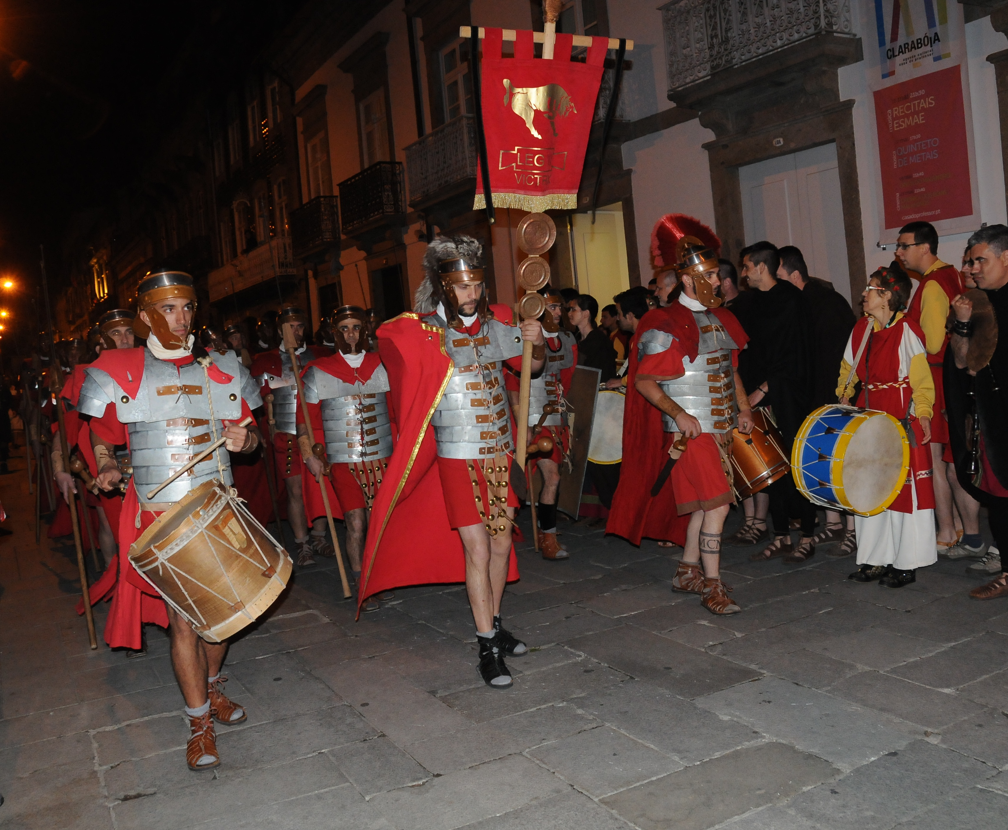 Roman market reenactment 2014, in Braga, Portugal